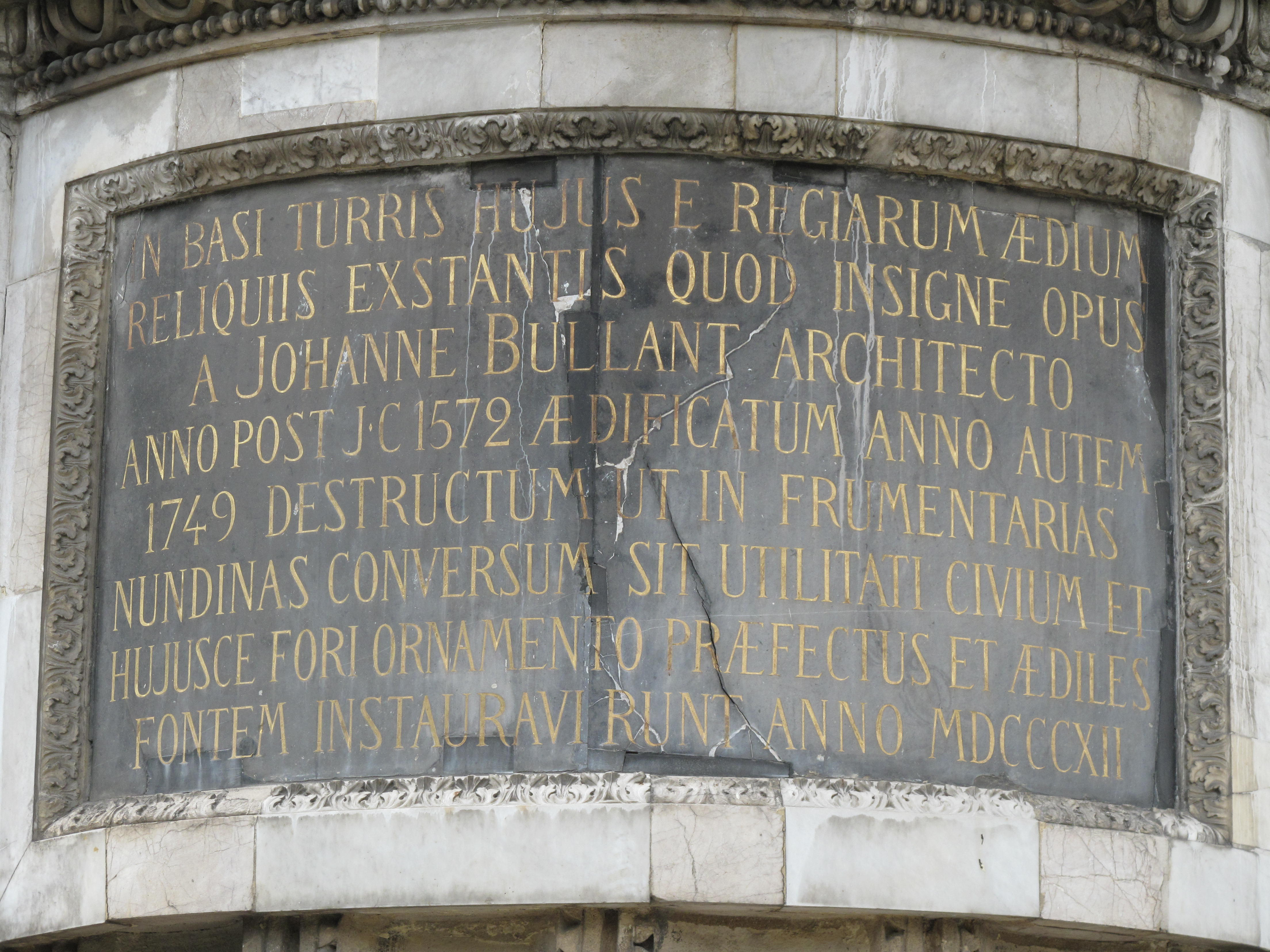 Plaque at the base of the Medicis column, Paris 1st arrond.